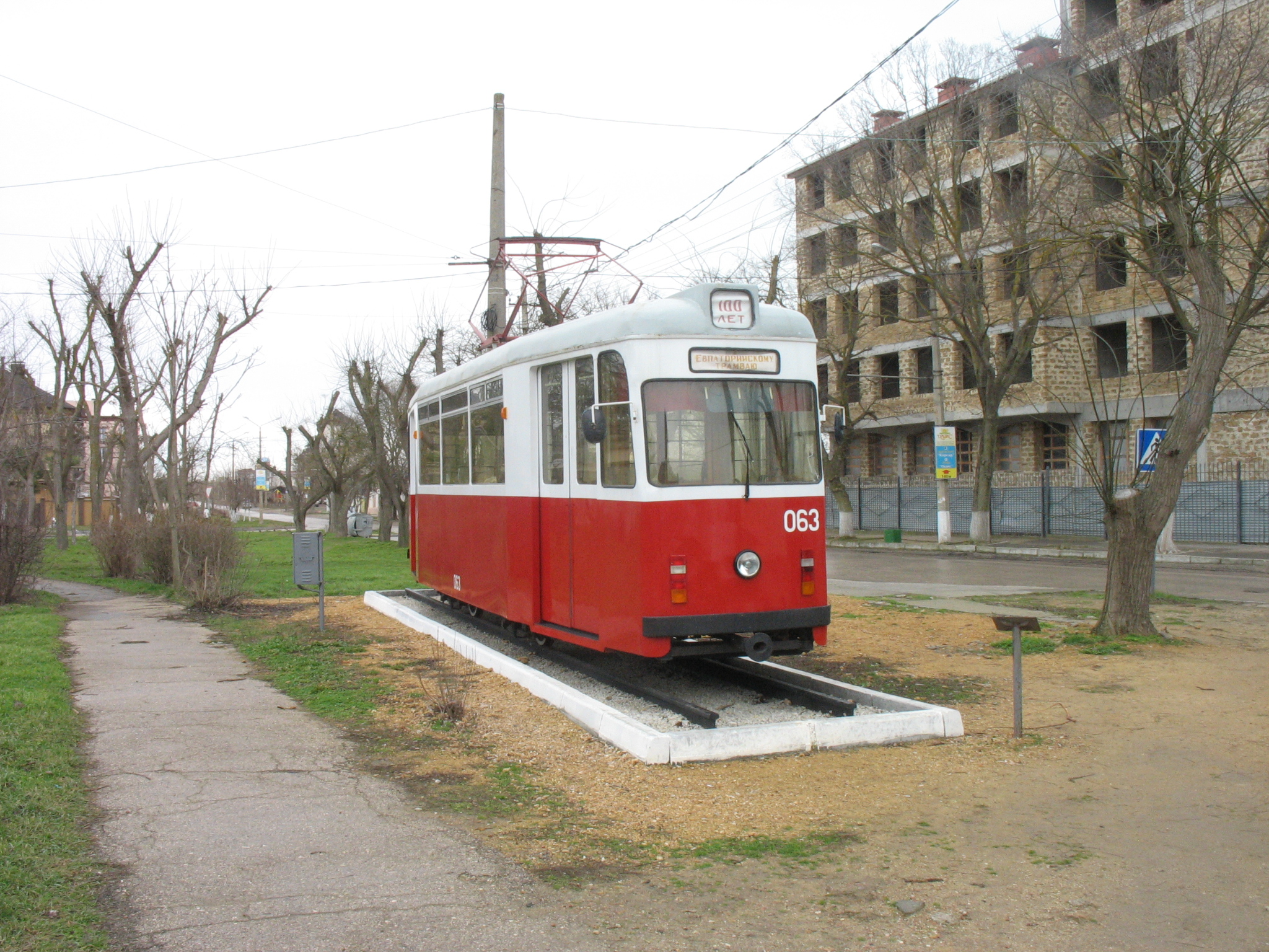 Tram-monument in Eupatoria